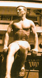 Carle Hessay in front his shanty on Passage Island prior to 1946